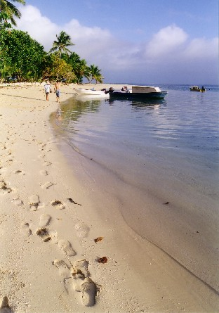 Leleuvia beach in Fiji